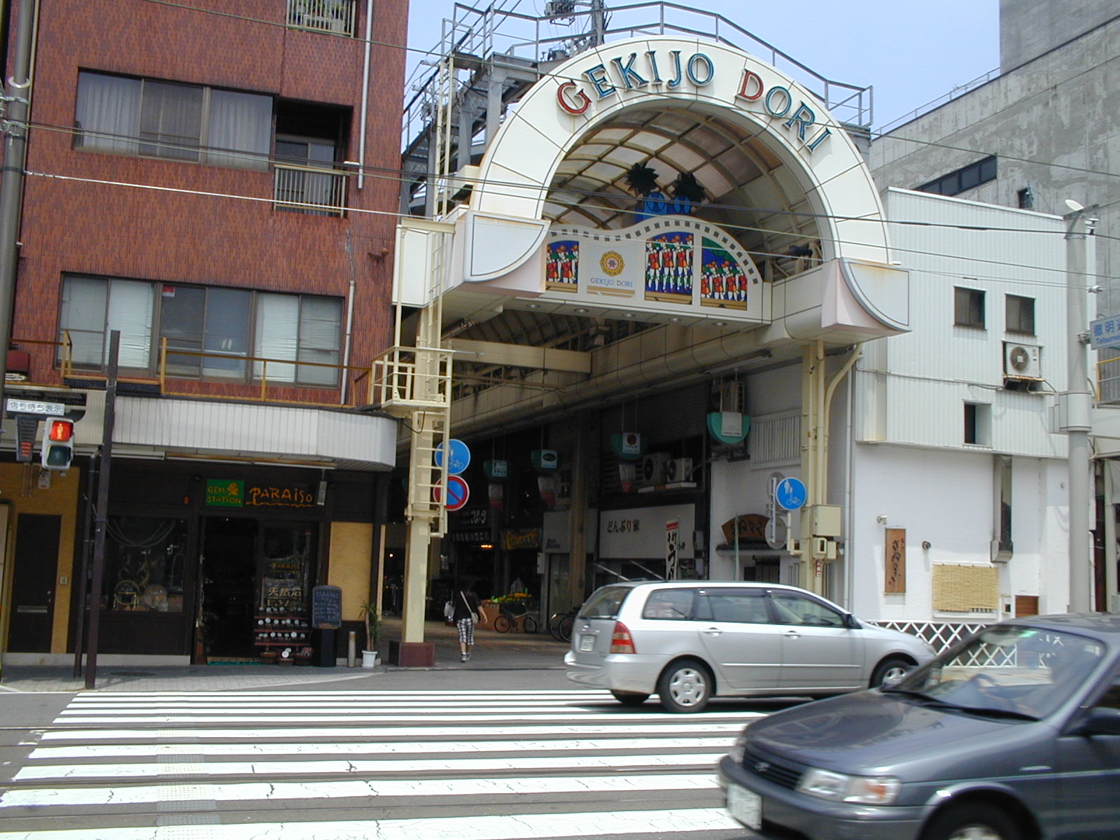 劇場通り(Theater Street)